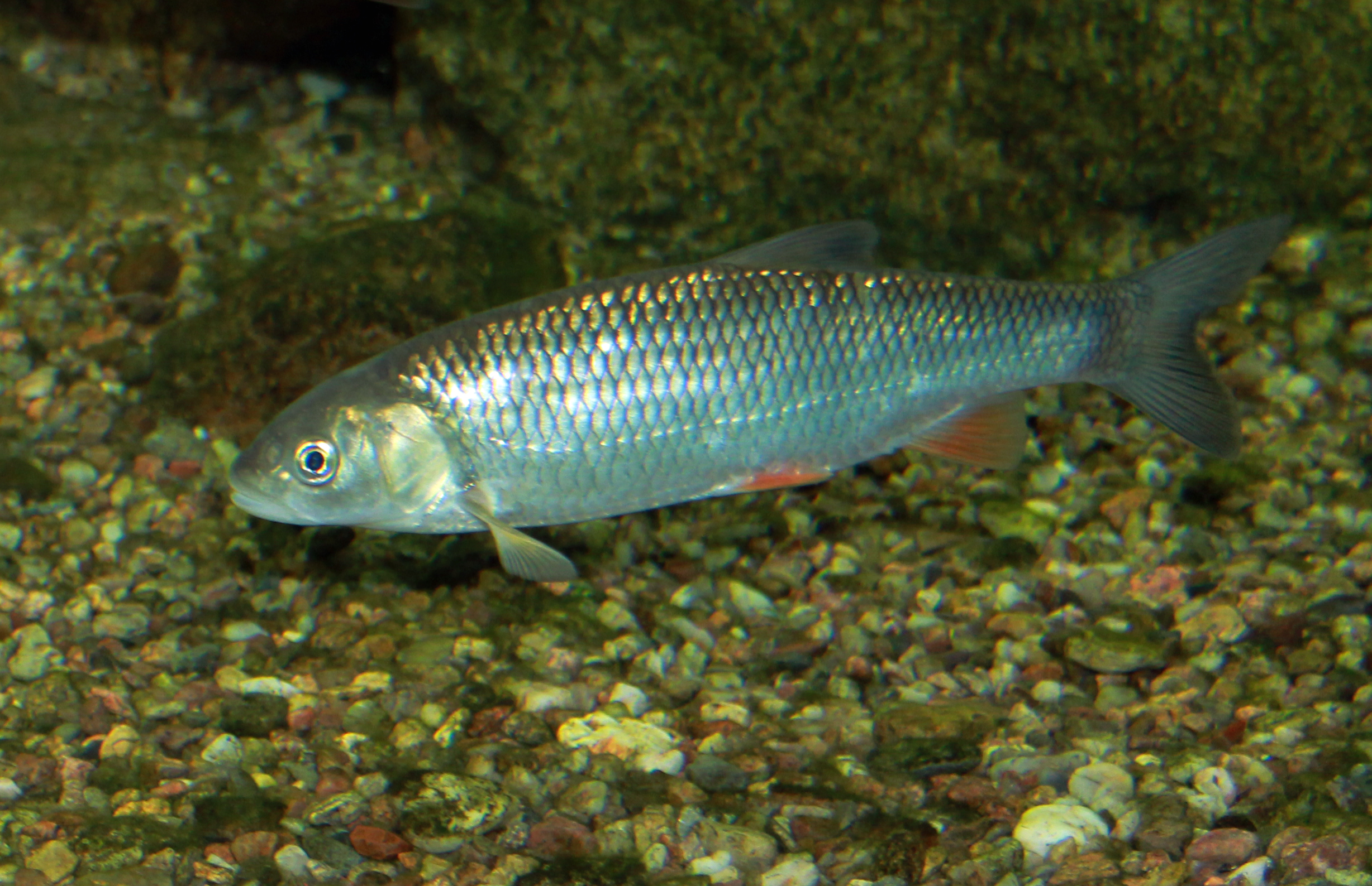 European chub on exhibition Subaqueous Vltava, Prague 2011, Czech Republic